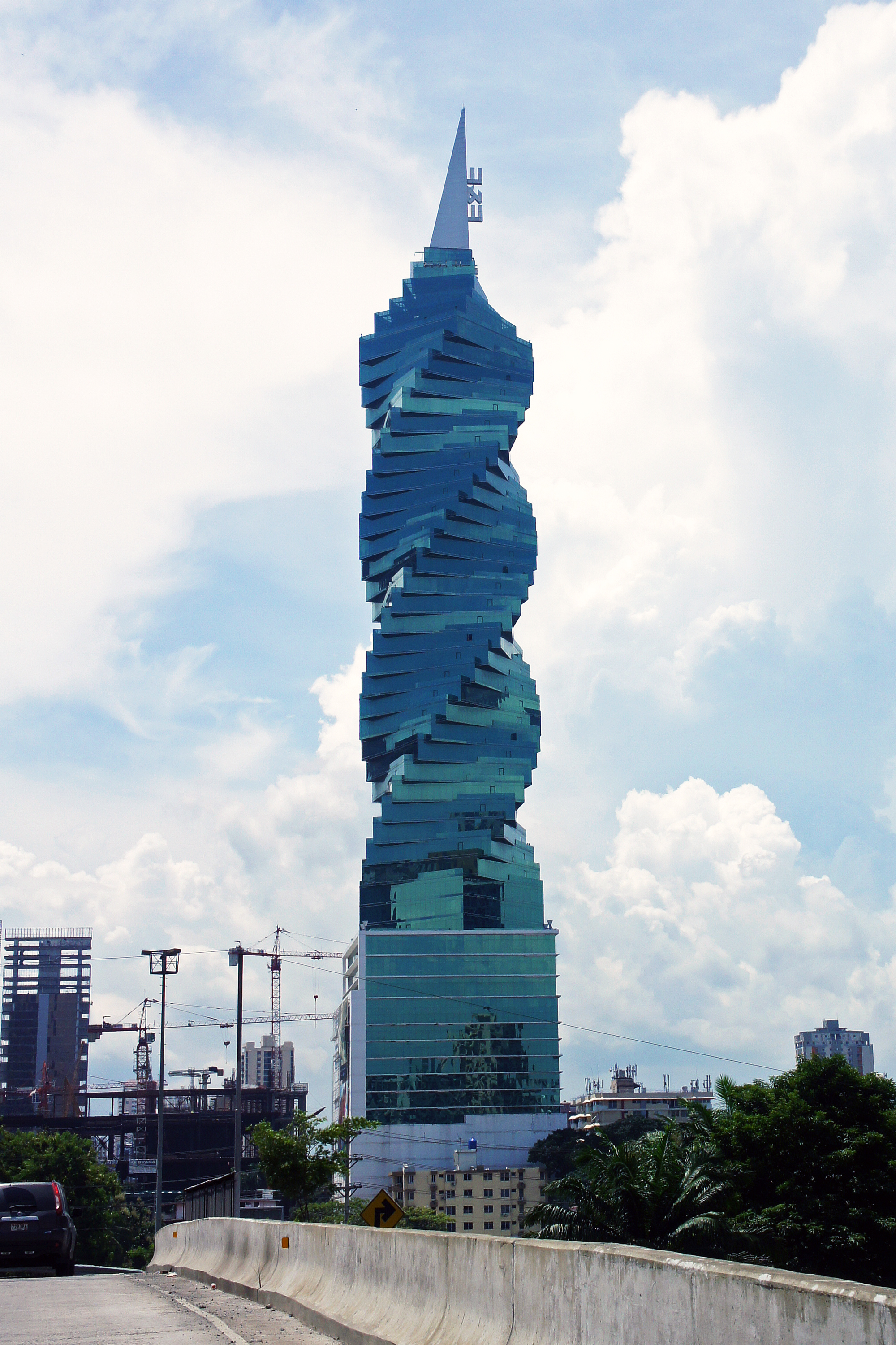 F&F Tower (known as Revolution Tower during its construction) in Panama City, Panama.